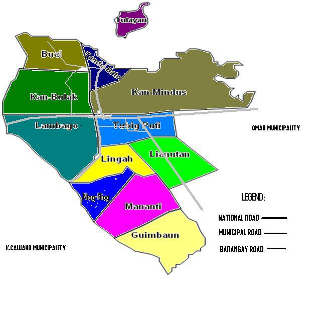 Political Map of Luuk, Sulu